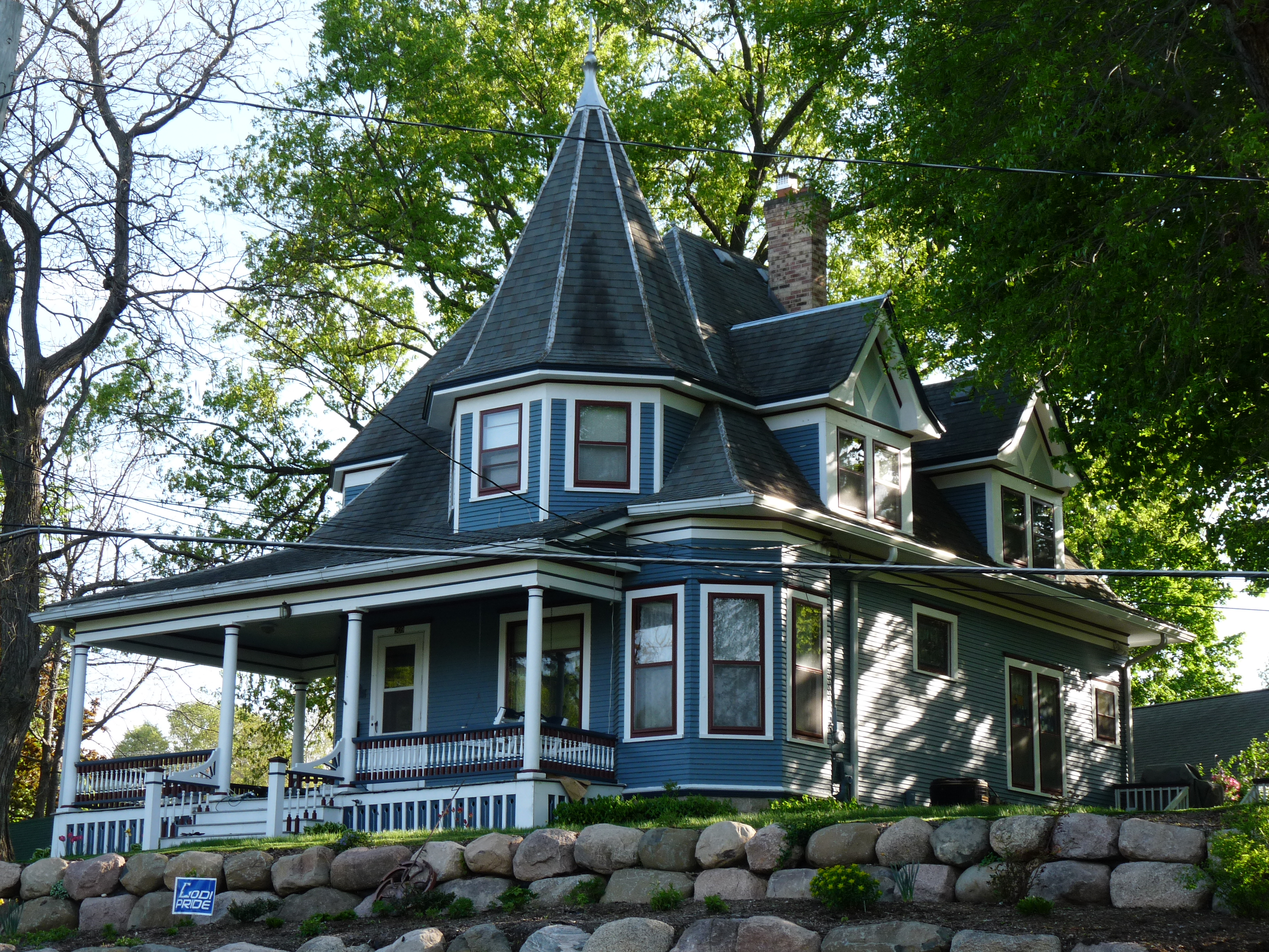 The Frank T. and Polly Lewis house is a Queen Anne-styled house in 1901-02 in Lodi, Wisconsin. In 2009 the house was added to the National Register of Historic Places.